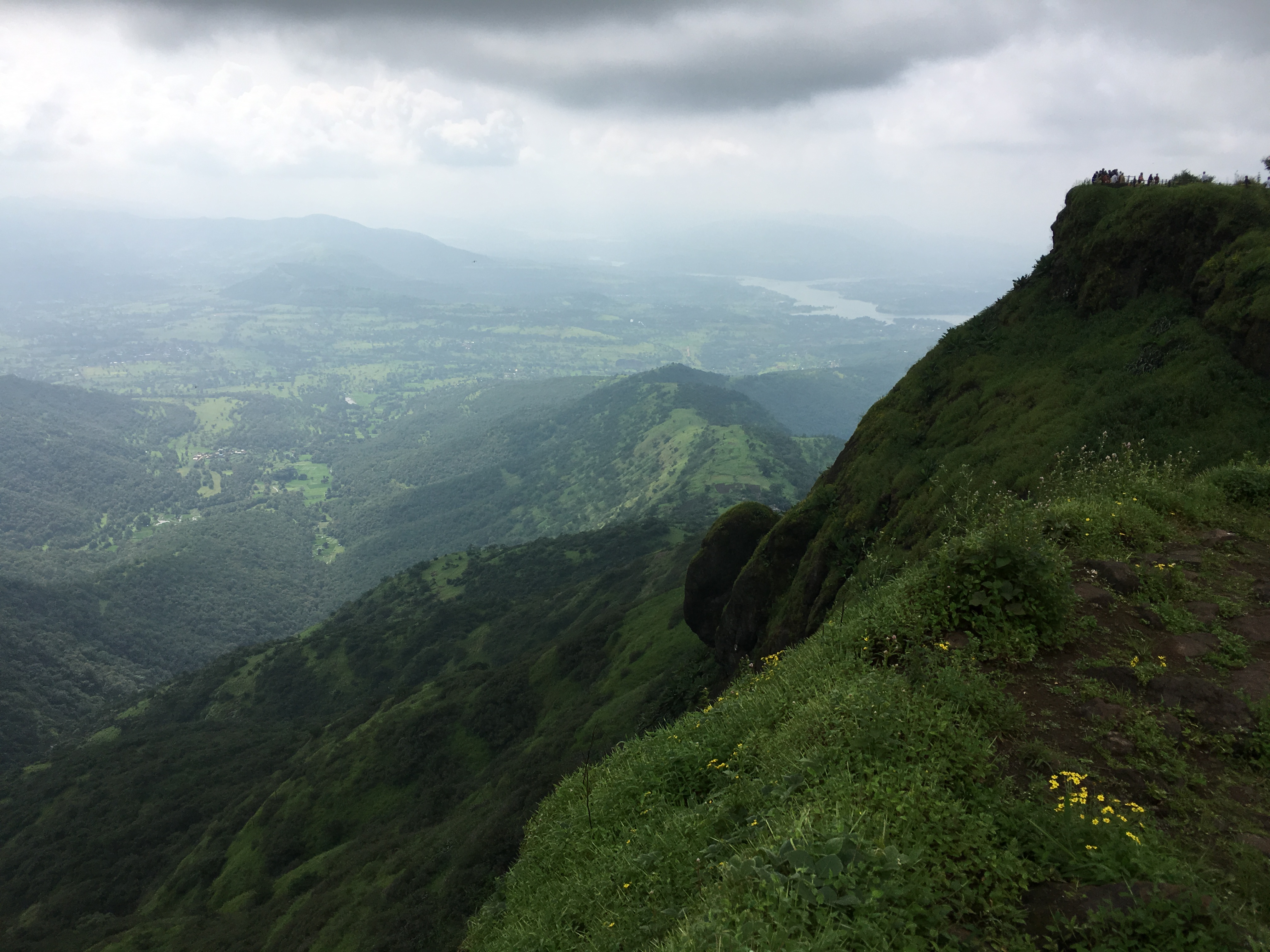 View from North front of Sinhagad